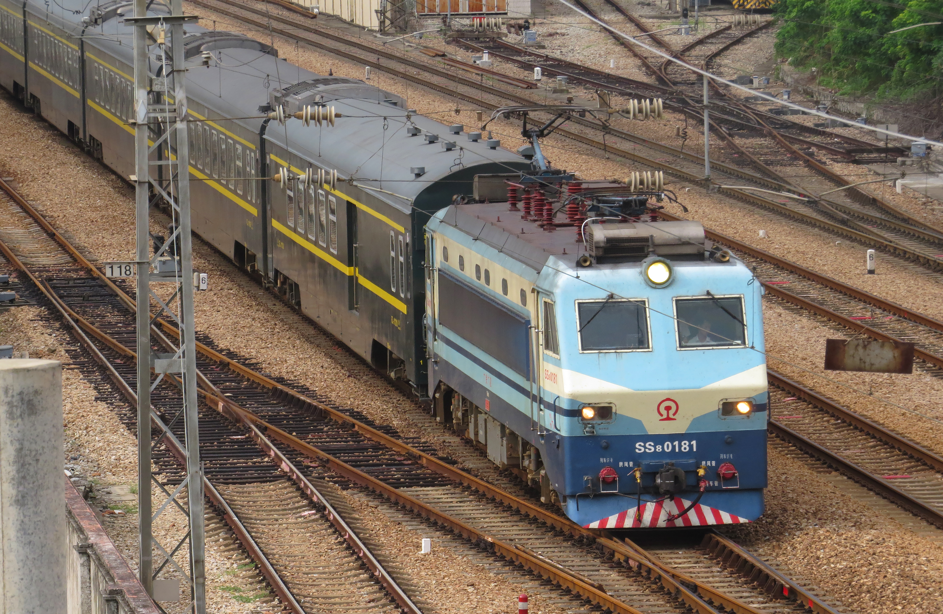 Z809 from Guangzhou East to Hung Hom. The SS8s which would enter Hong Kong are equipped with DSA series pantographs.